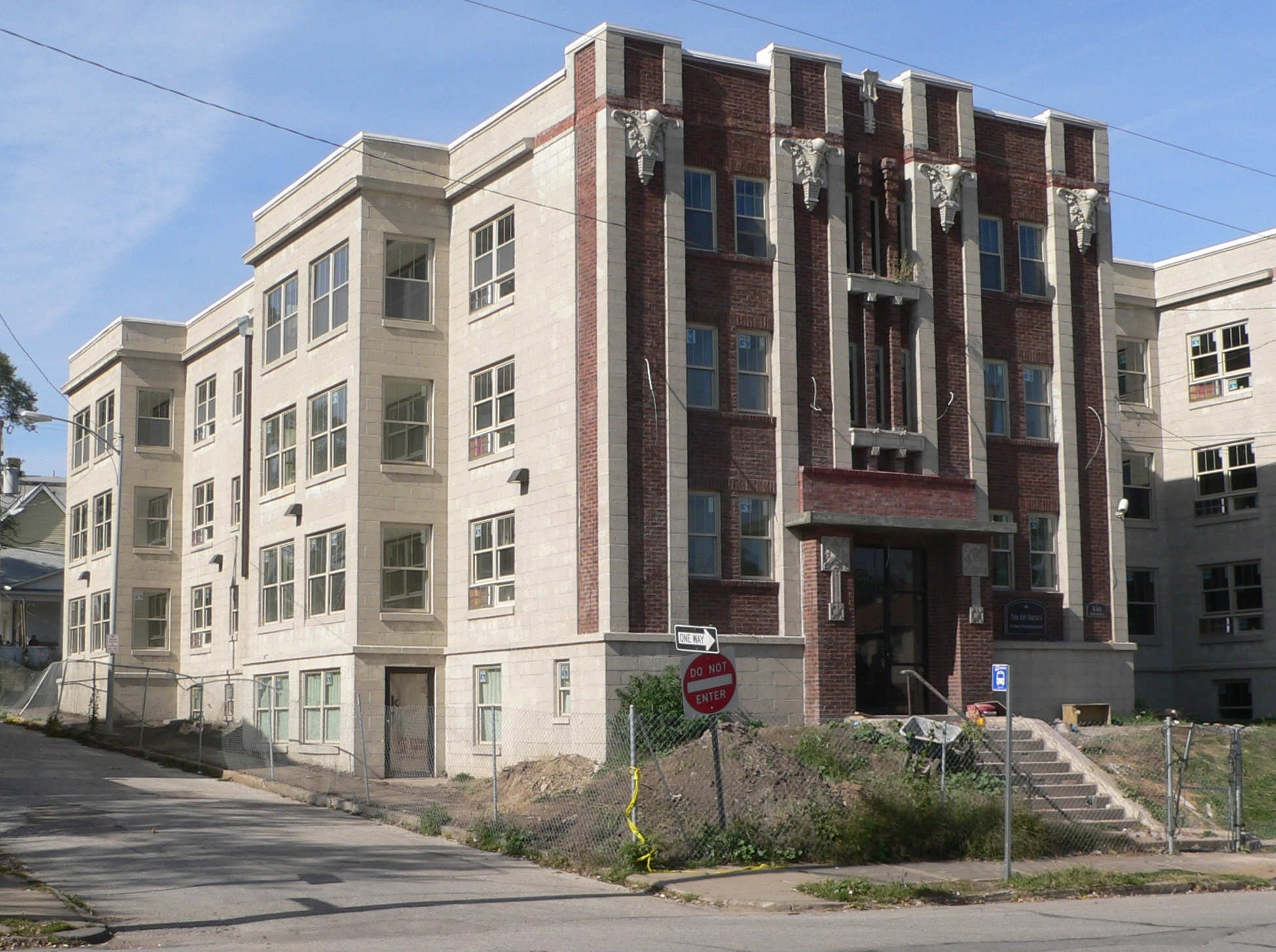 846 Park Avenue. One of three buildings in Terrace Court Apartments, located on the west side of the 800 block of Park Avenue in Omaha, Nebraska. View is from the southeast.